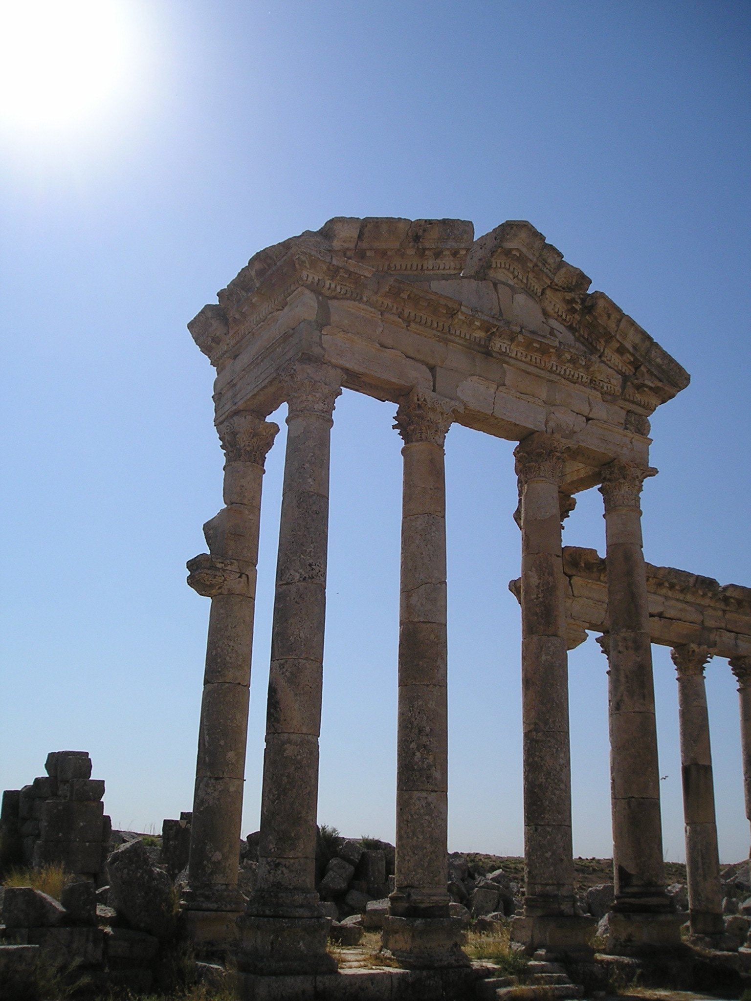 Apamea, Syria - a portico at the eastern side of the Cardo (yes, it was taken early in the morning).